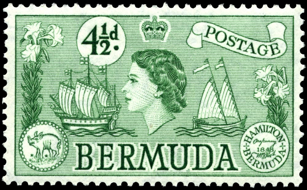 Bermuda 4 1/2-pence stamp of 1953